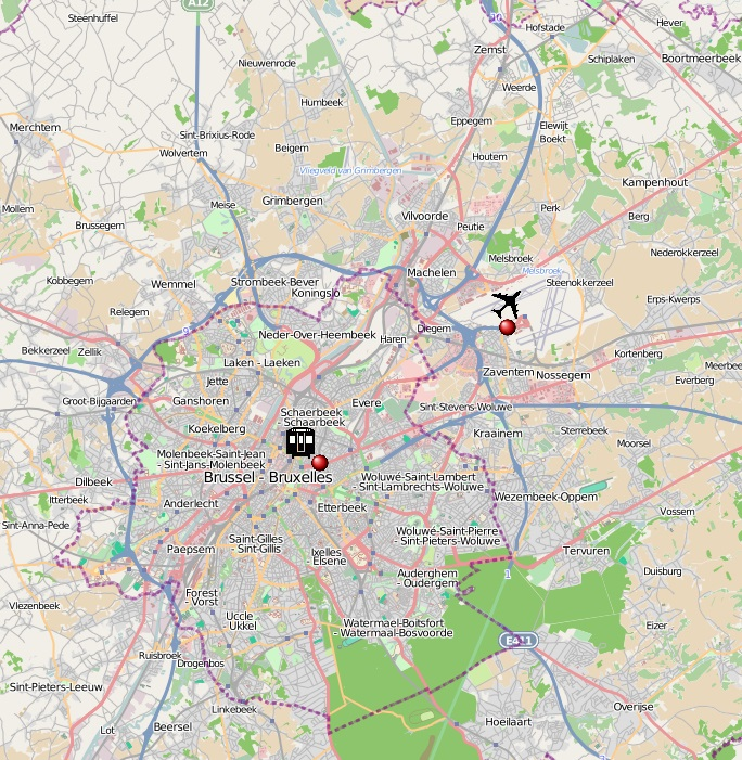 March 2016 Brussels attacks